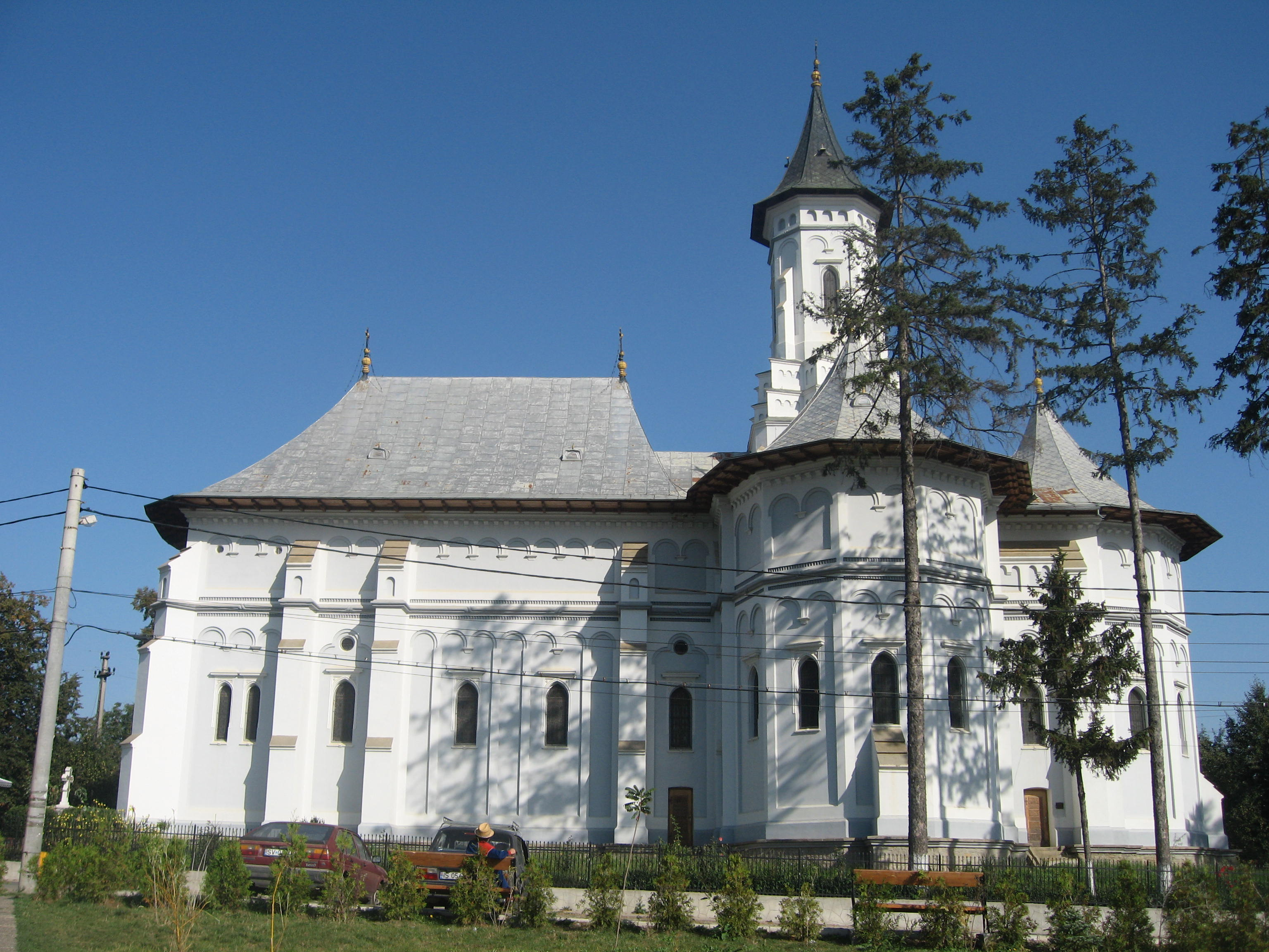 Biserica Sfântul Gheorghe din Bosanci